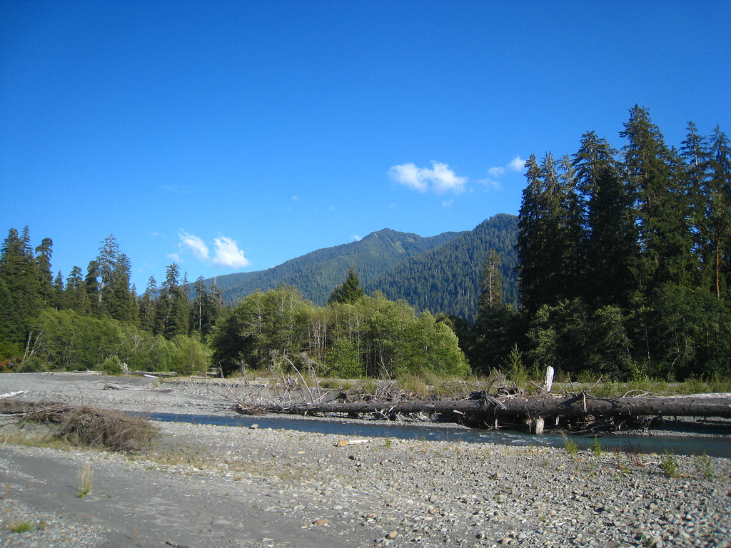 Hoh River in Olympic NP, Washington. Tall trees are Picea sitchensis.